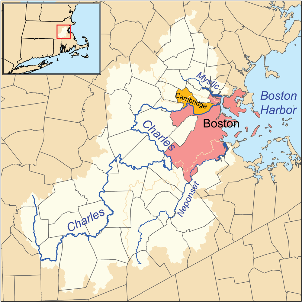 This is a map of the Charles, Mystic, and Neponset drainage basins.